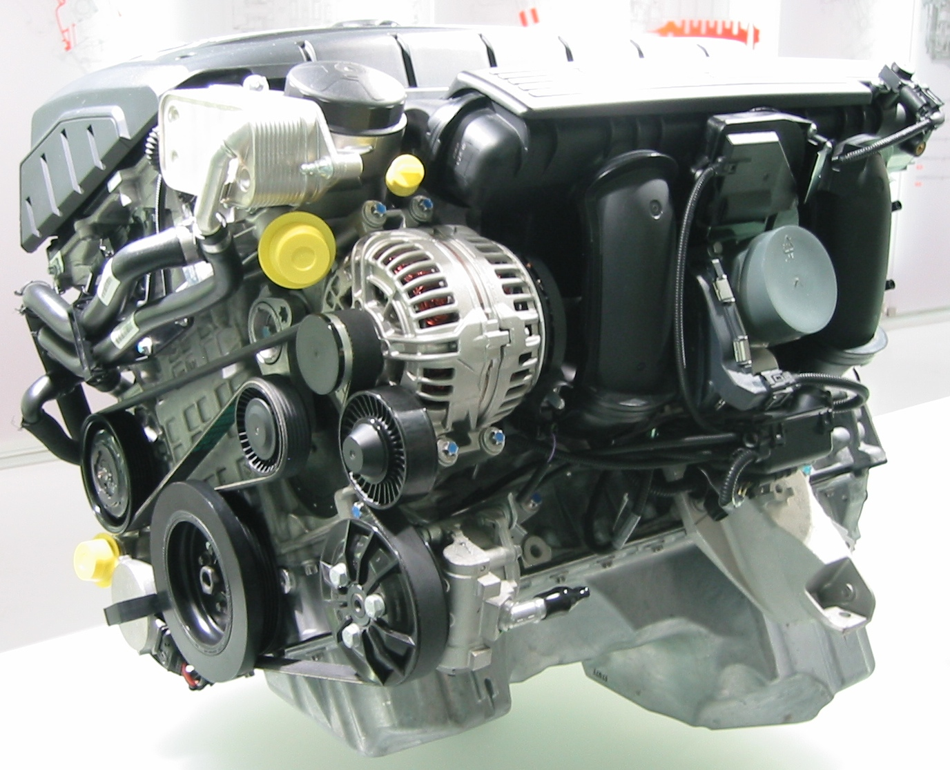 BMW N52 Straight6 Engine at BMW-Museum Munich